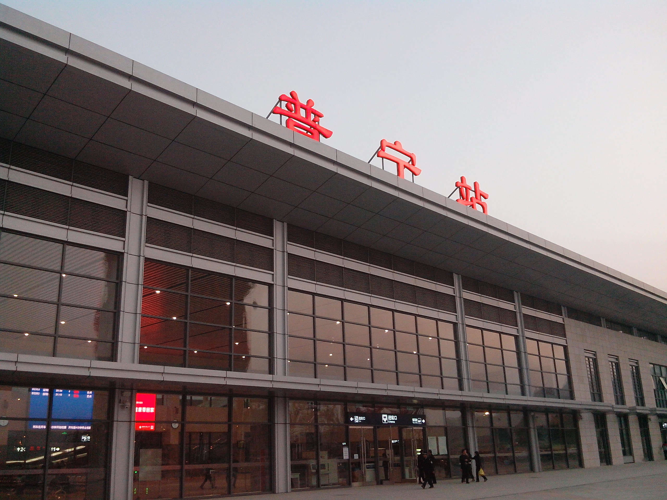 A photo of Puning Railway Station at January 2014